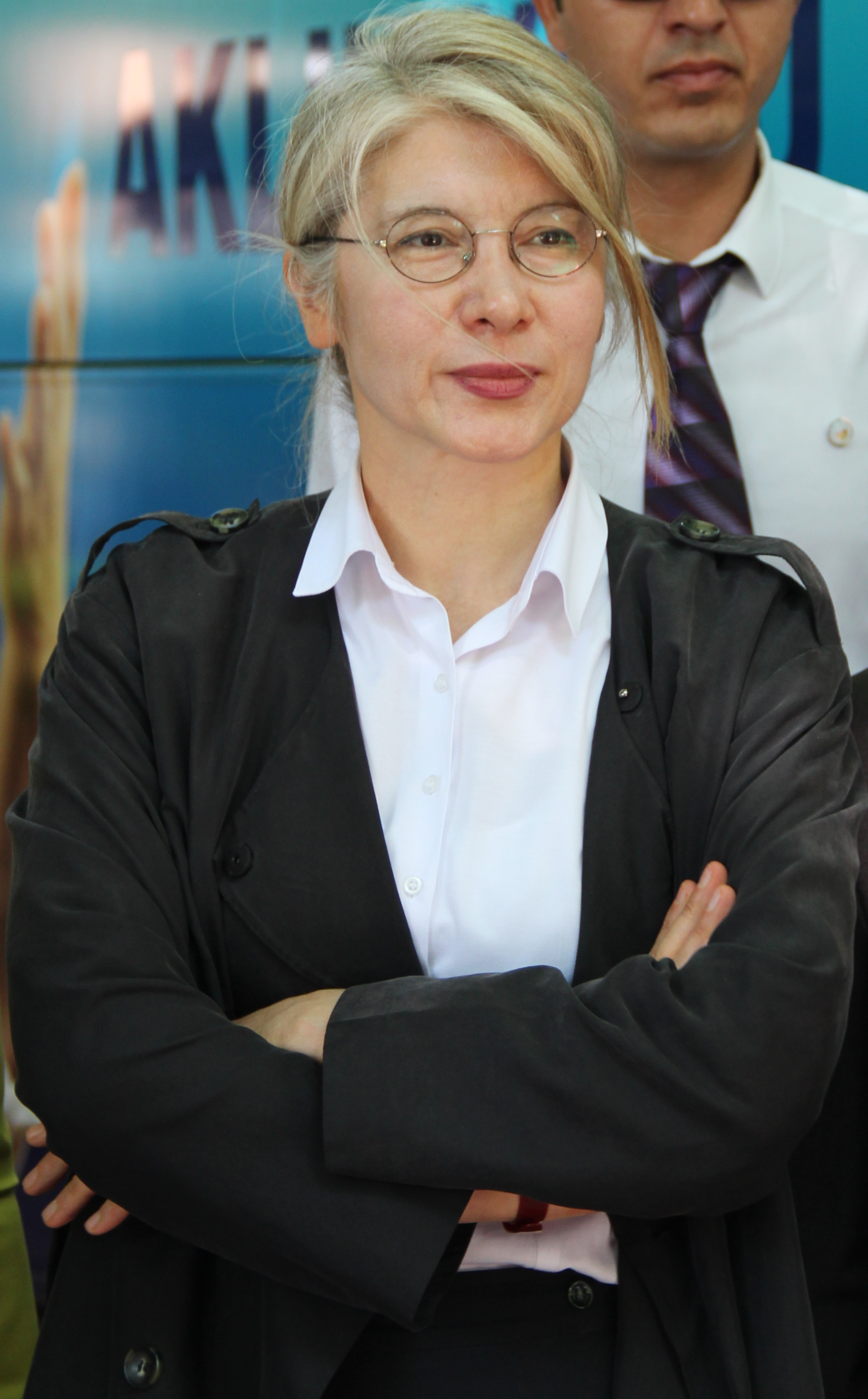 Emine Ülker Tarhan, Anatolia Party 2015 general election campaign in Kocaeli